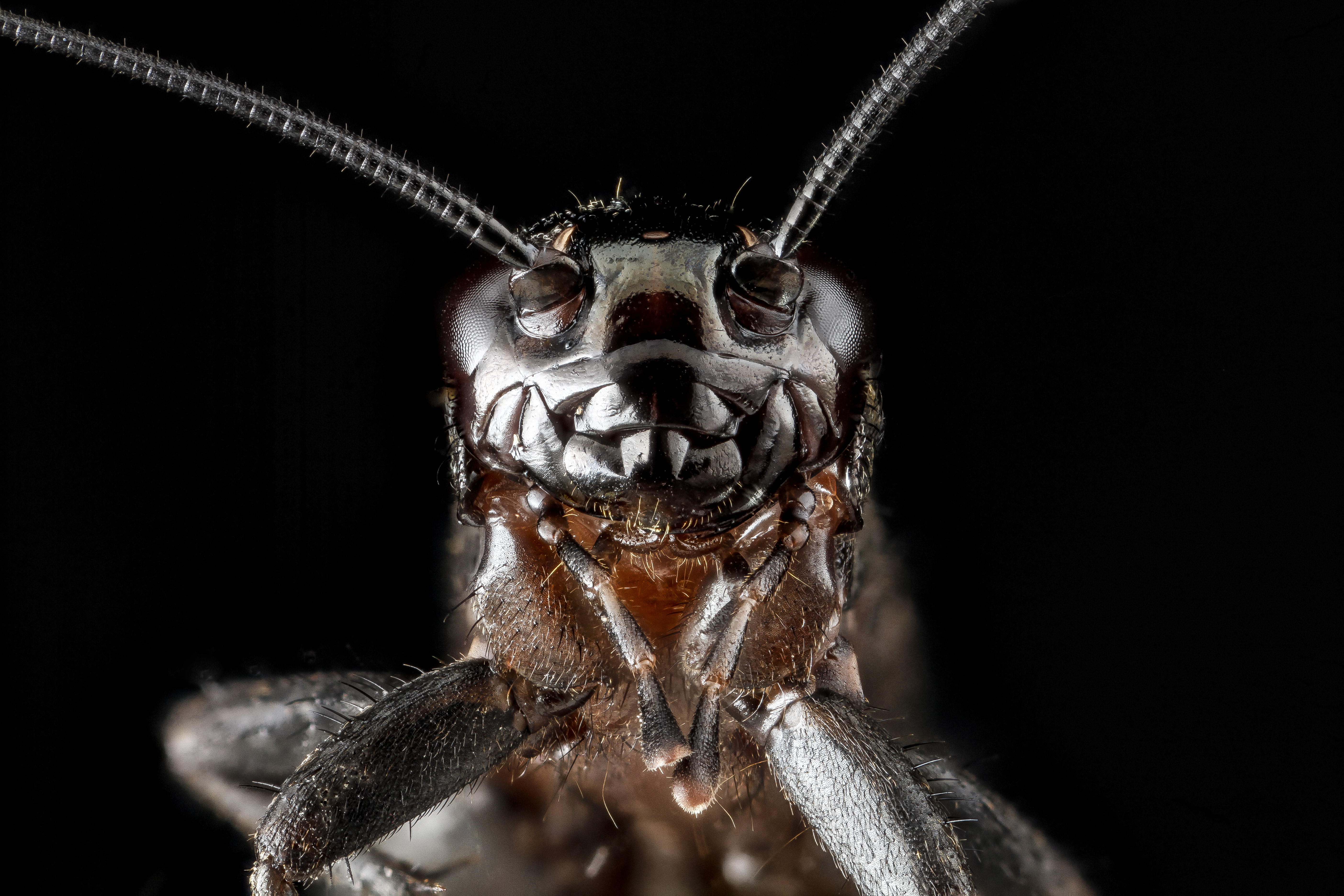 Ground Cricket....from around the base of Building 308, Beltsville Agriculture Research Center, unknown species